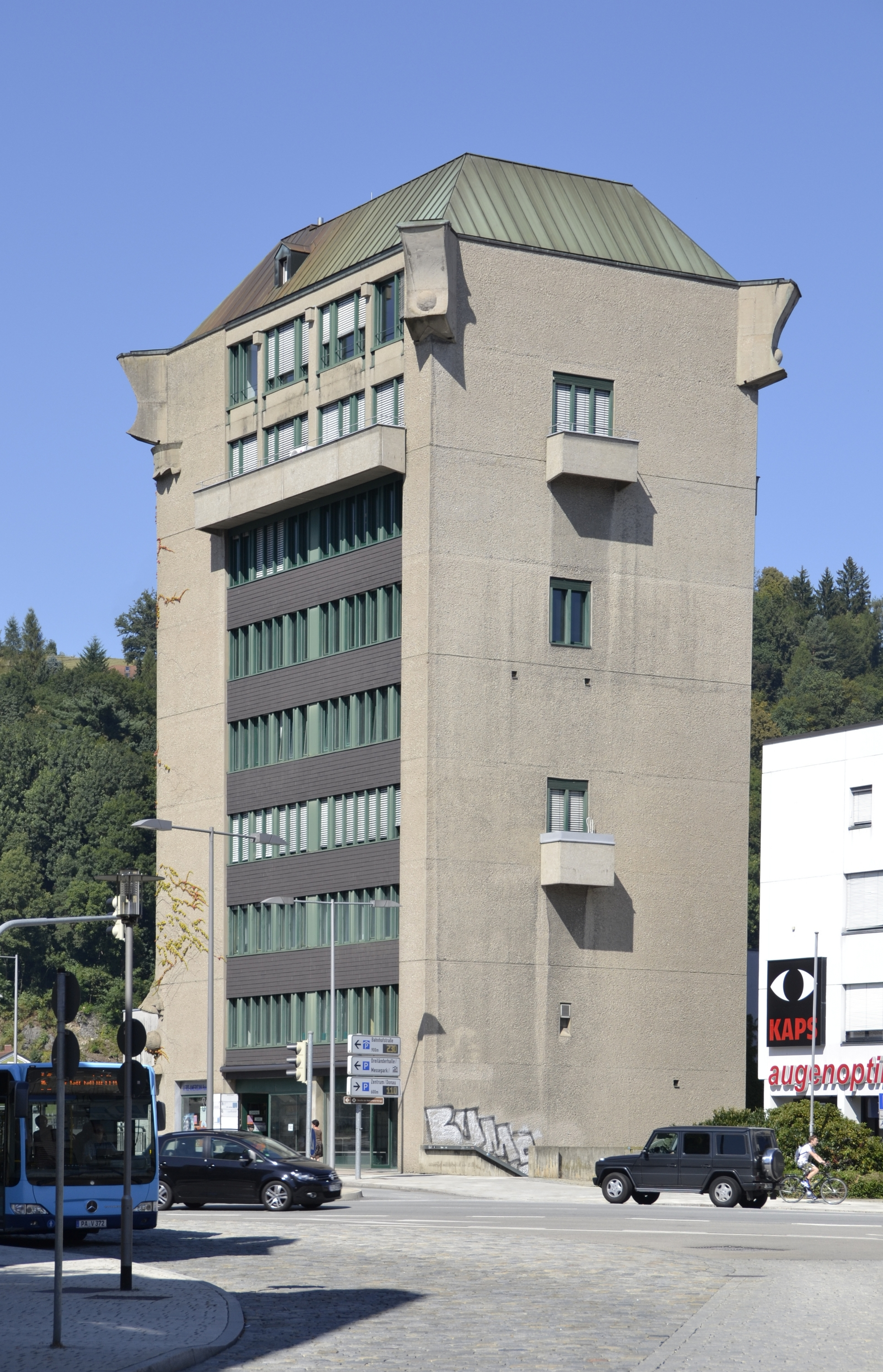 The Schanzl-Tower in Passau.